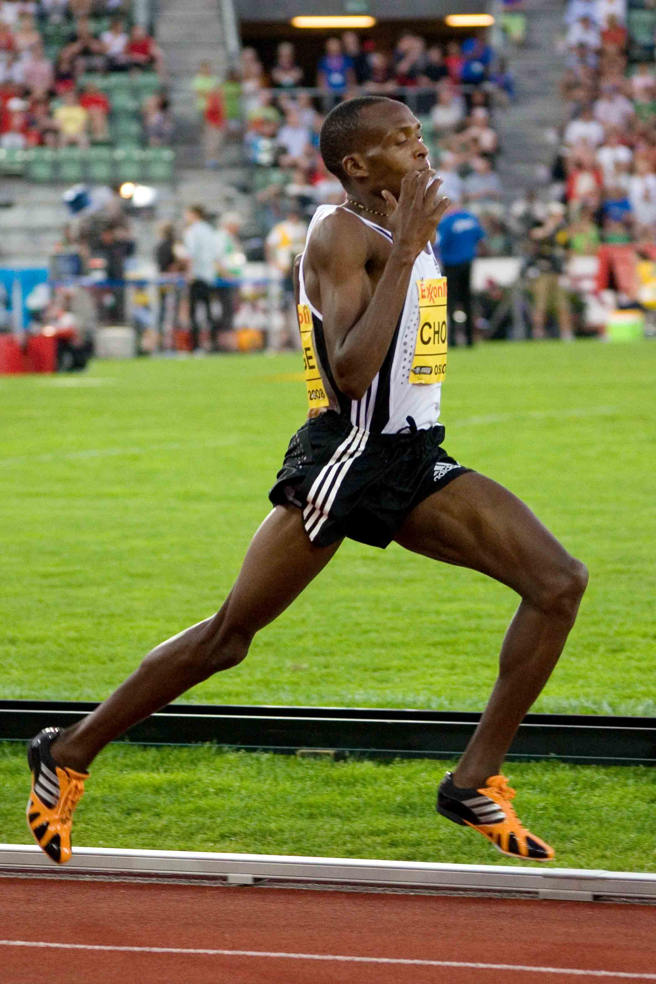 Dream mile men: Augustine Kiprono Choge of Kenya